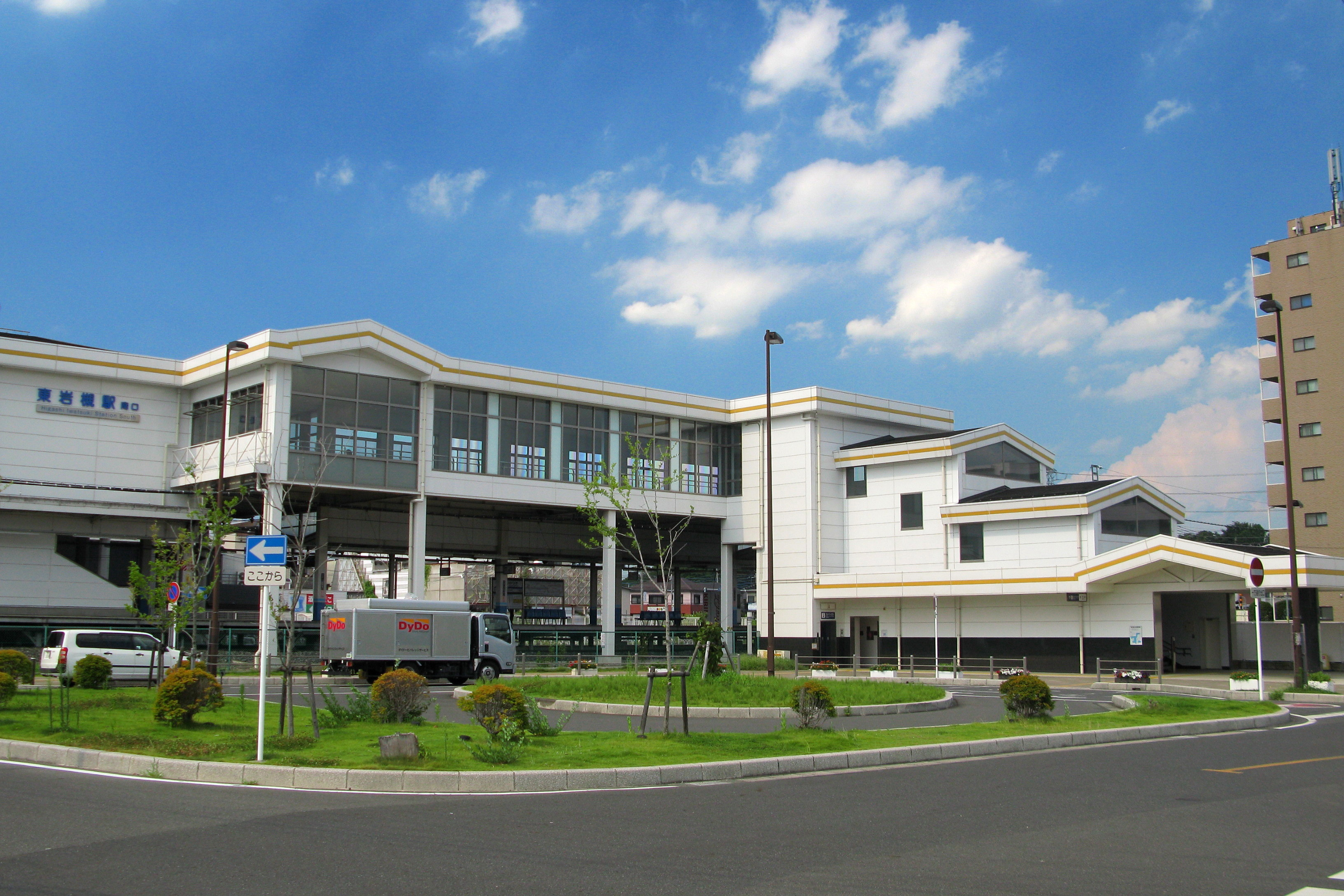 South side of Higashi-Iwatsuki Station on the Tobu Noda Line in Saitama Prefecture, Japan